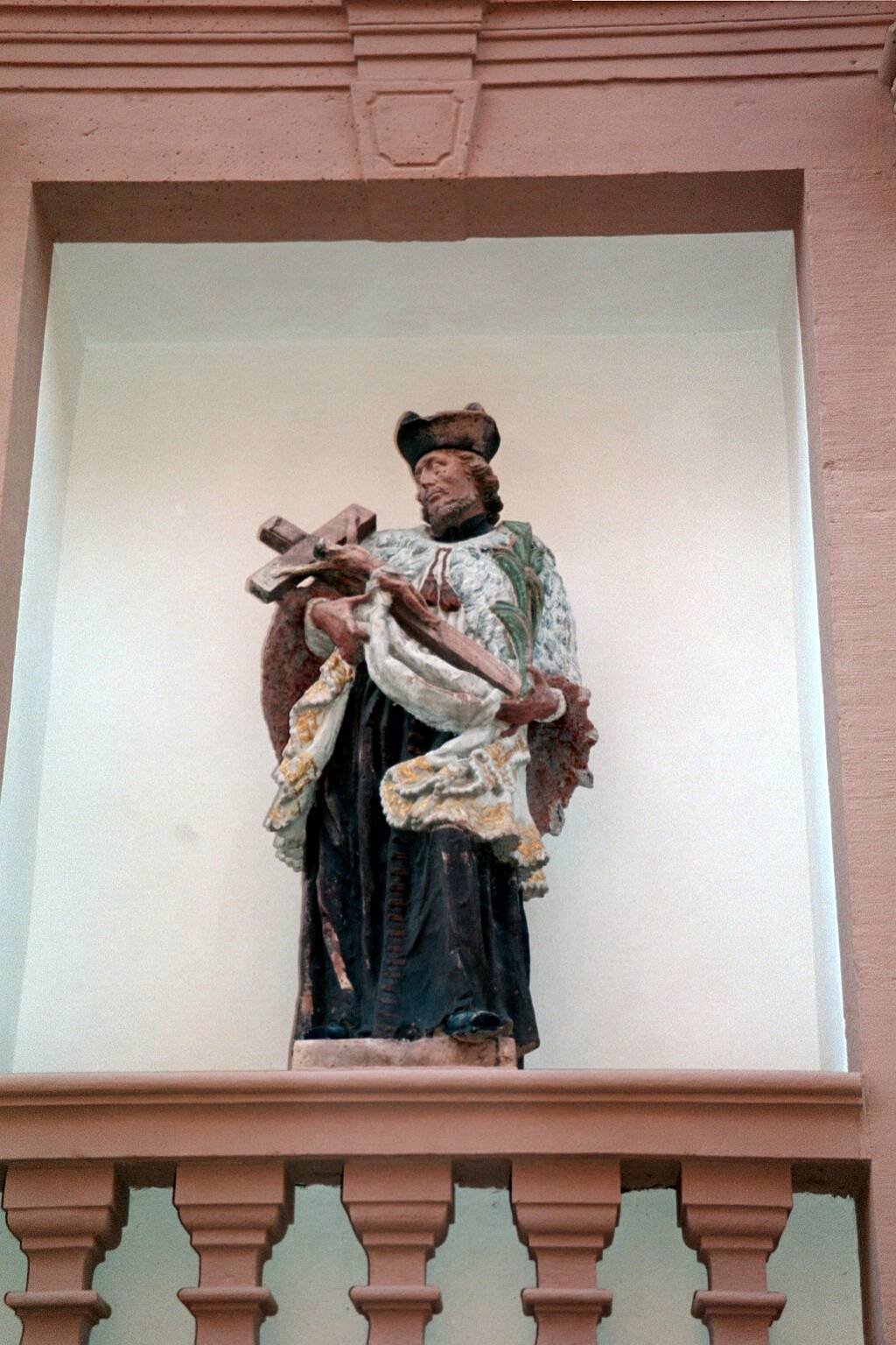 Hanau-Grossauheim, Statue St. Nepomuk